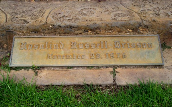 Rosalind Russell's grave at Holy Cross Cemetery, in Culver City, California, United States. Photo by Lisa Burks 11/6/2005